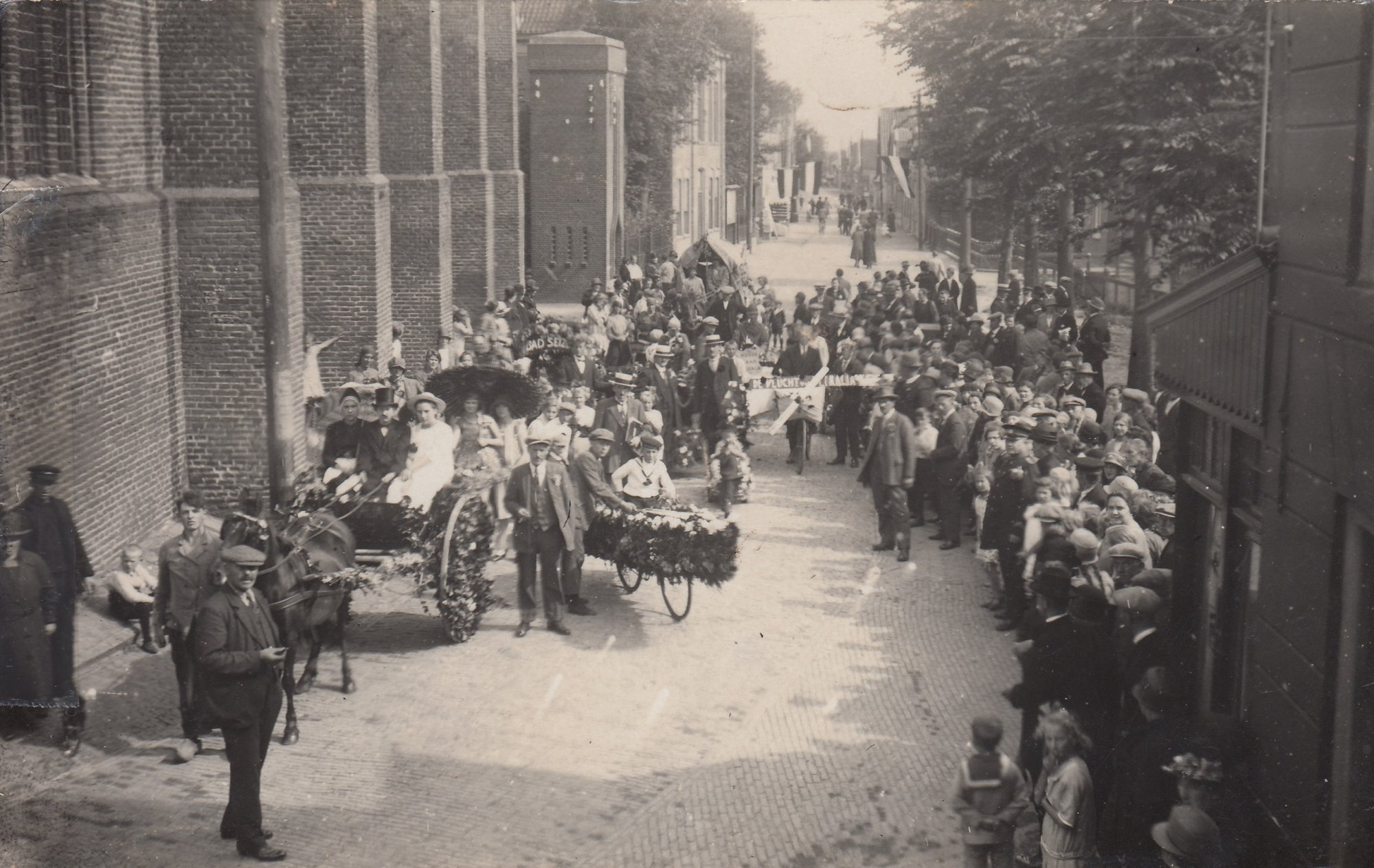 Decorated carts and bicycles during the Floralia flower festival in Schermerhorn, probably in the 1930's